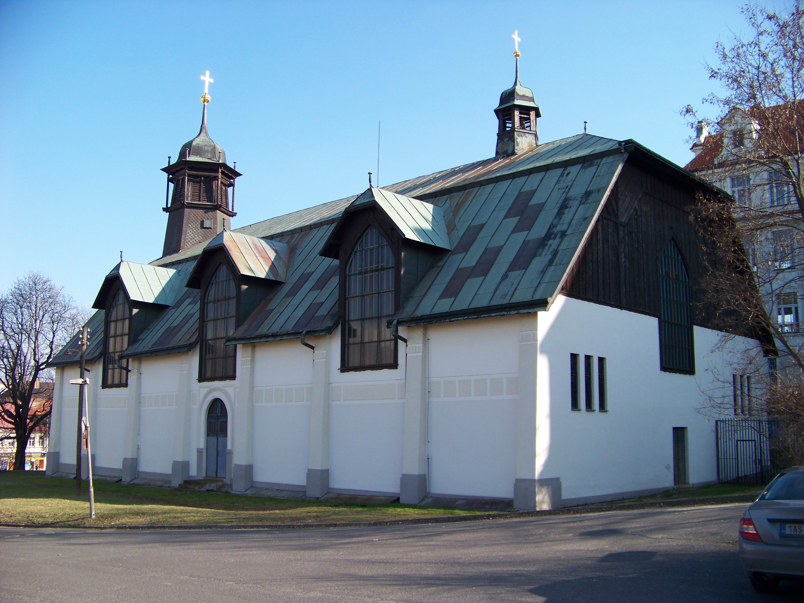 Prague-Libeň, the Czech Republic. U Meteoru street, Saint Adalbert church. - OpenStreetMap(Info)